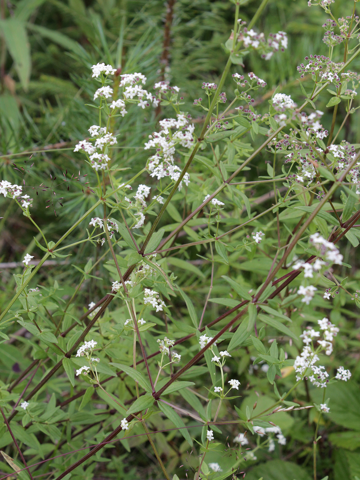 Rubiaceae, Galium boreale